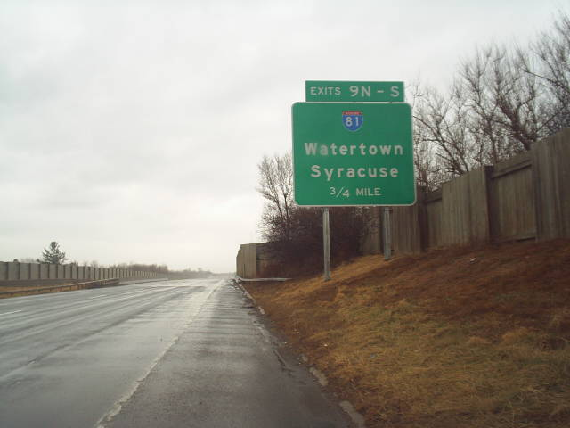 Interstate 481 northbound at the junction with Interstate 81, .75 of a mile away in North Syracuse.